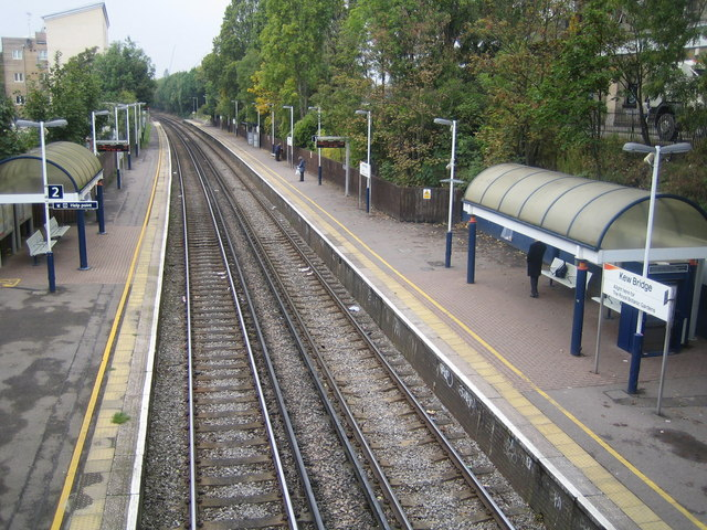 Kew Bridge railway station